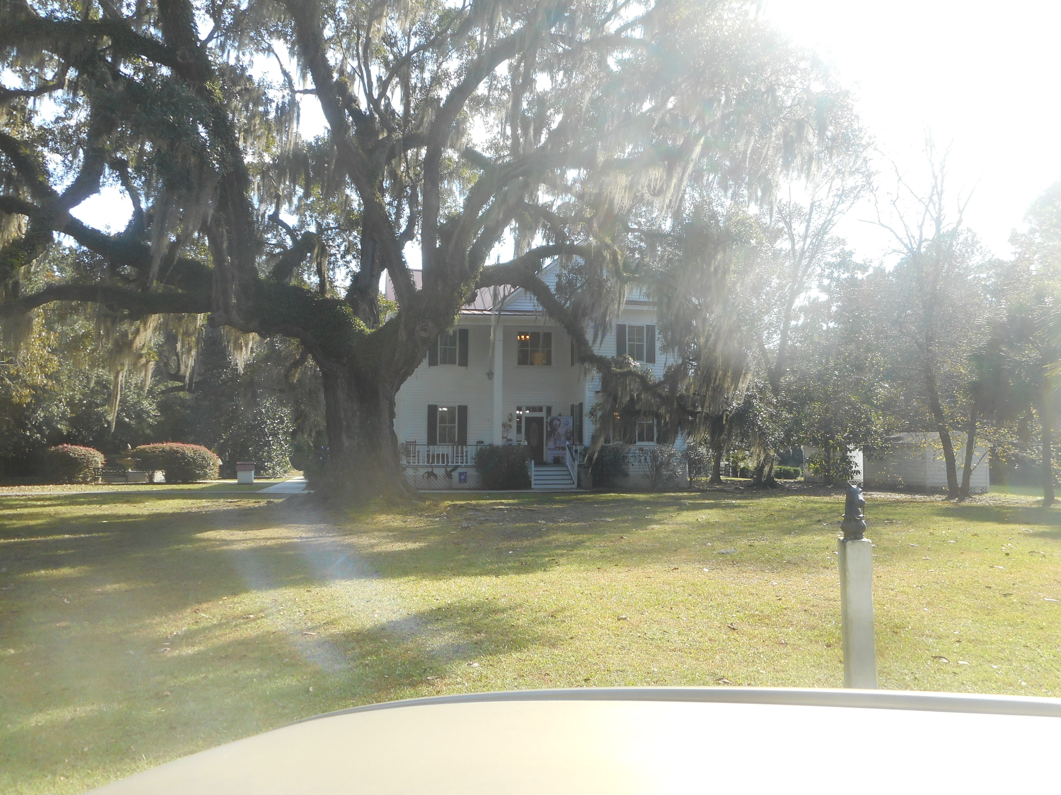 Images related to the John Edward Frampton Plantation House, now occupied by the Lowcountry Visitor Center and Museum, on the southeast side of US 17 just east of Exit 33 off of I-95 in Point South, South Carolina. Further details to come later.